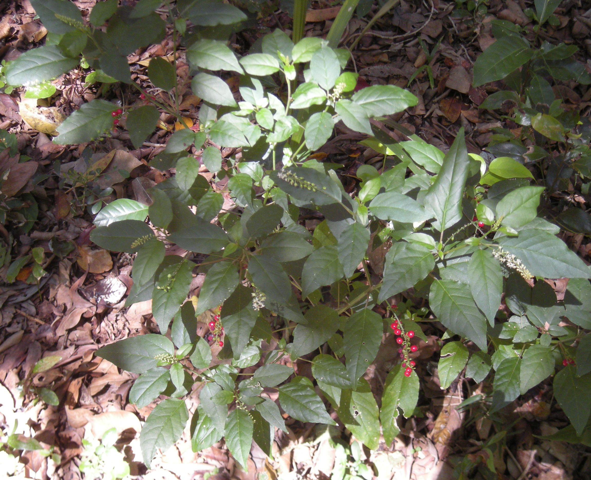 Rivina humilis plant, Mount Archer national Park, Rockhampton.